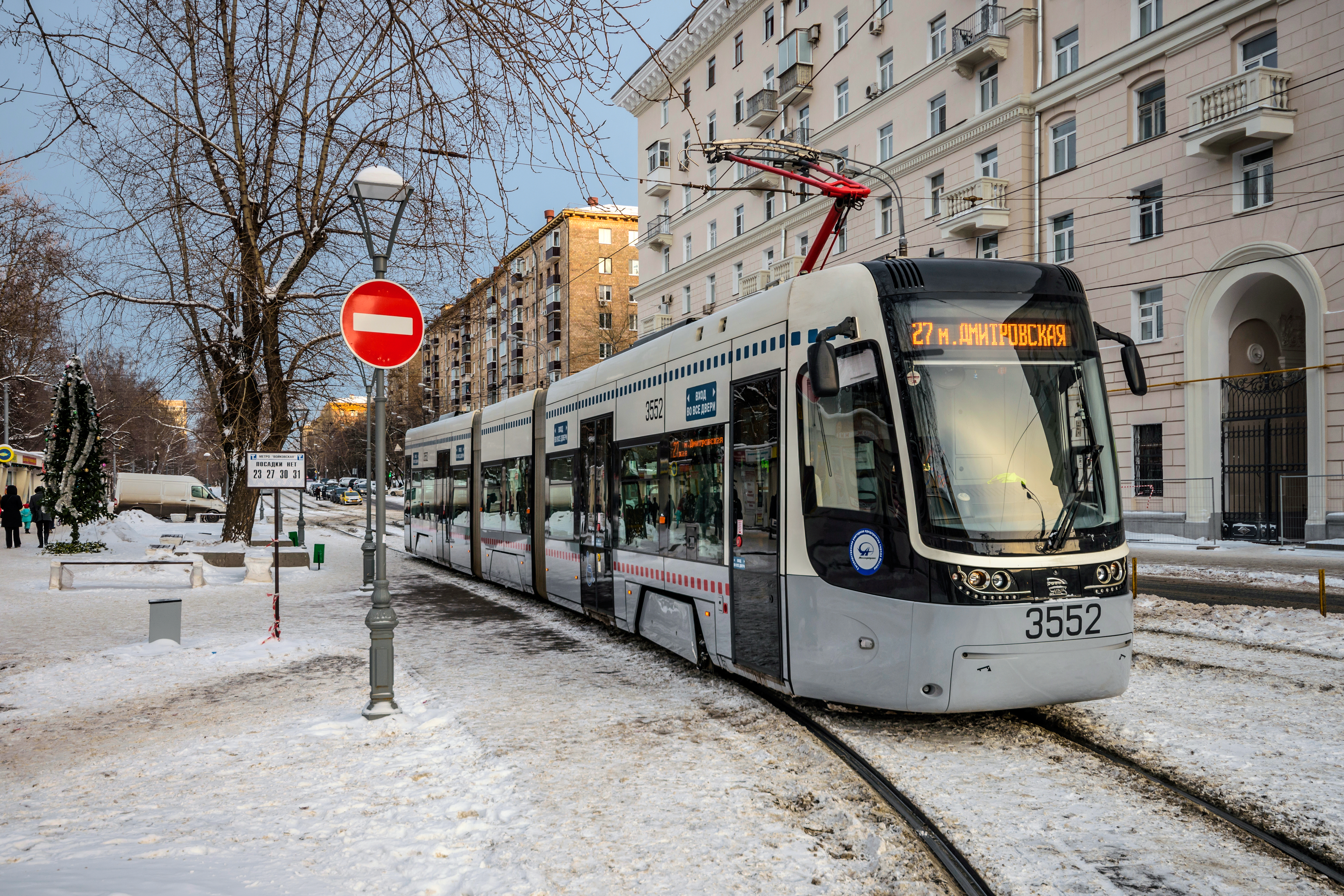 Tram Pesa Twist Fokstrot (71-414) in Moscow